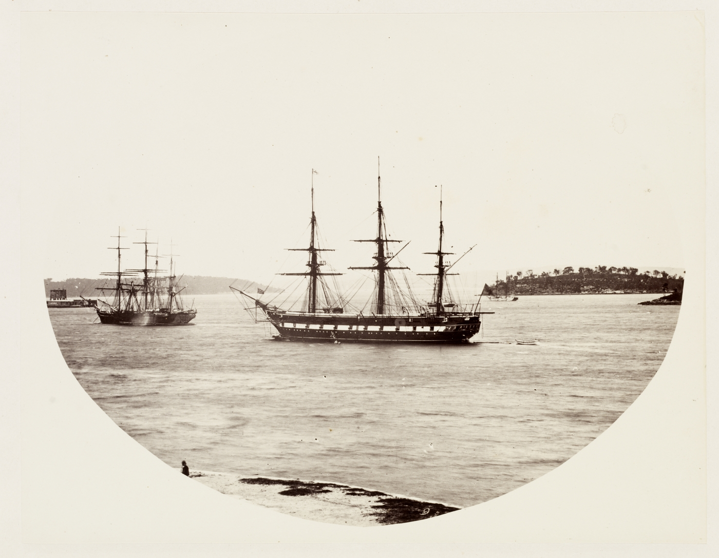 141. H.M.S. "Clio" at Anchor in Farm Cove